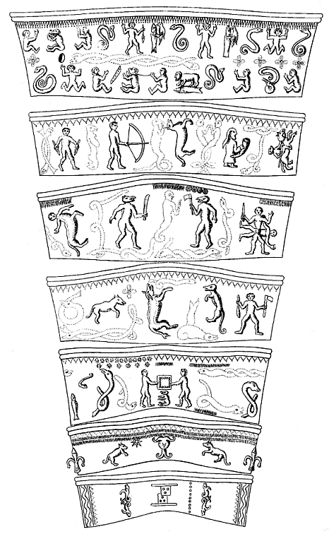 Drawing of the image panels of the larger of the Gallehus Horns, projected onto a flat surface, by J.R. Paulli (1734), immediate source [1]